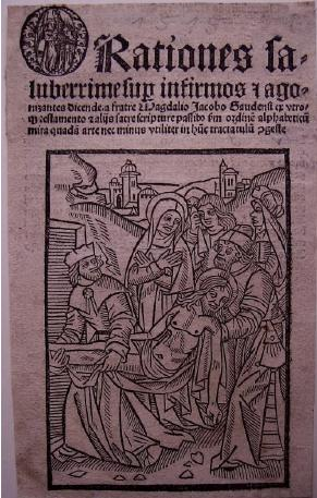 This page from the book Orationes saluberrime super infirmos & agonizantes dicende written by Jacobus Magdalius is privately owned. Diese Seite aus den Schriften Orationes saluberrime super infirmos & agonizantes dicende von Jacobus Magdalius befindet sich einer privaten Kunstsammlung..